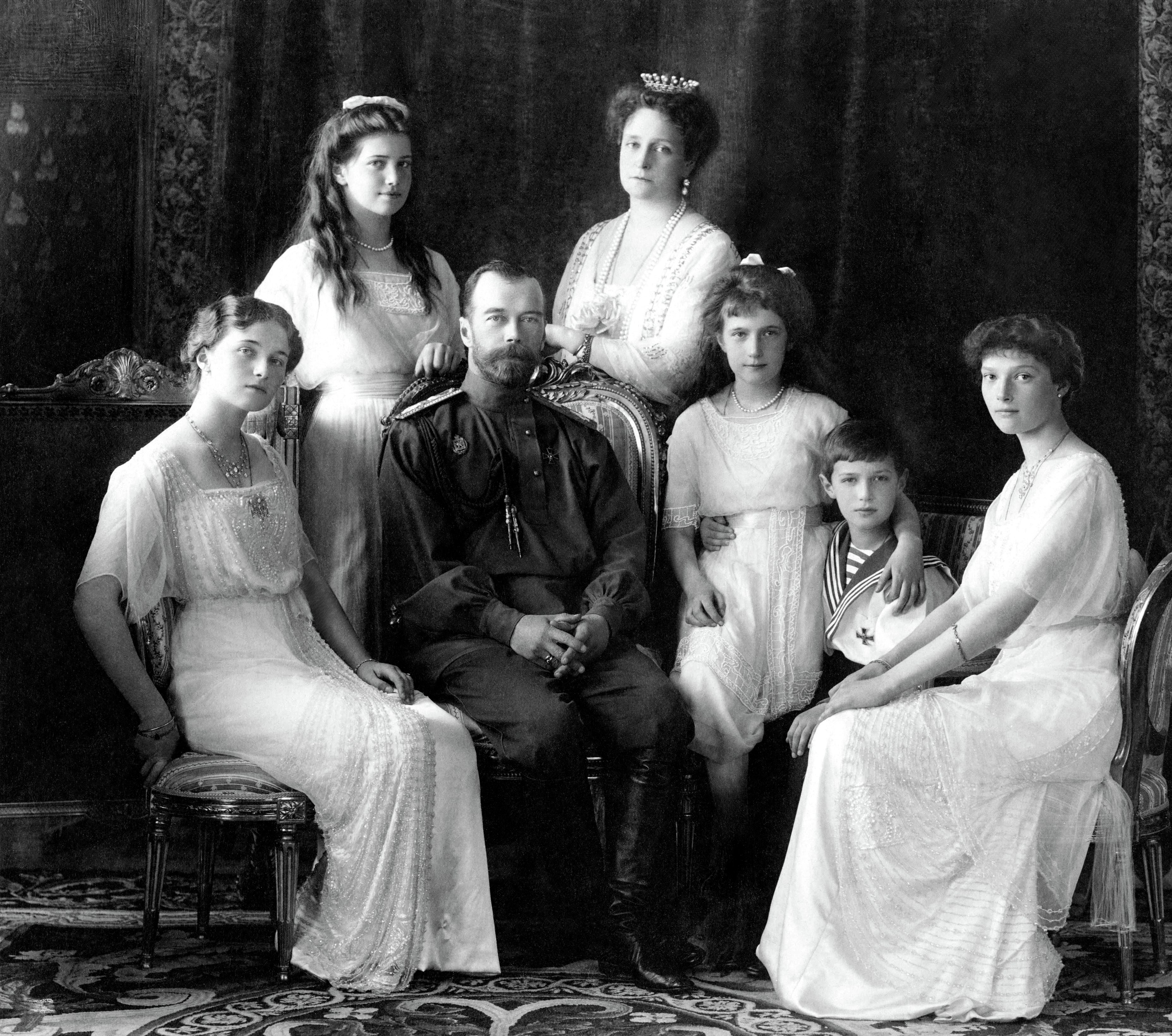 Nicholas II of Russia with the family (left to right): Olga, Maria, Nicholas II, Alexandra Fyodorovna, Anastasia, Alexei, and Tatiana. Livadiya, Crimea, 1913. Portrait by the Levitsky Studio, Livadiya. Today the original photograph is held at the Hermitage Museum, St. Petersburg, Russia.